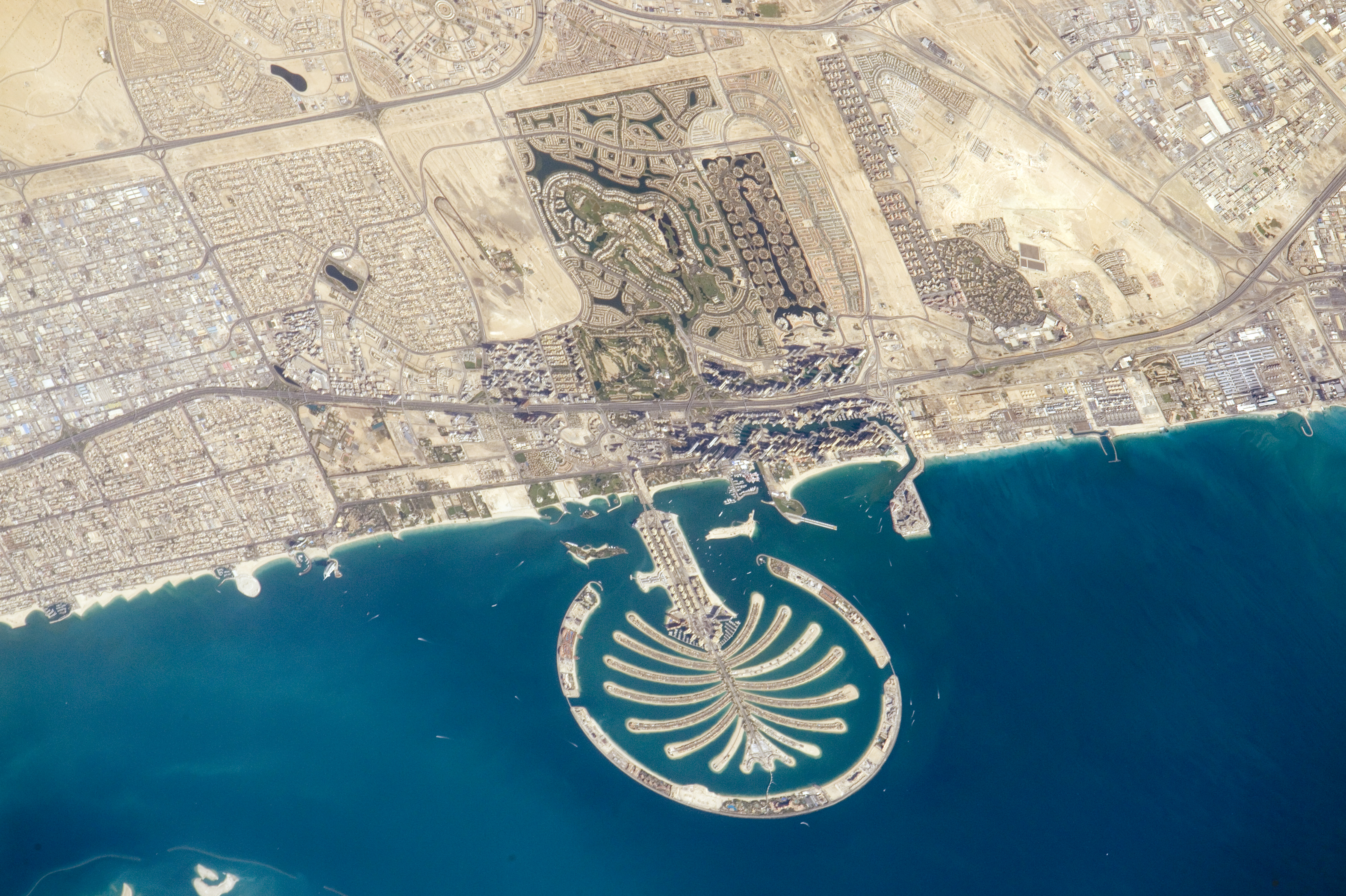 NASA astronaut Tim Kopra tweeted this image with the comment: "Palm Jumeirah in #Dubai from @Space_Station. #Explore"